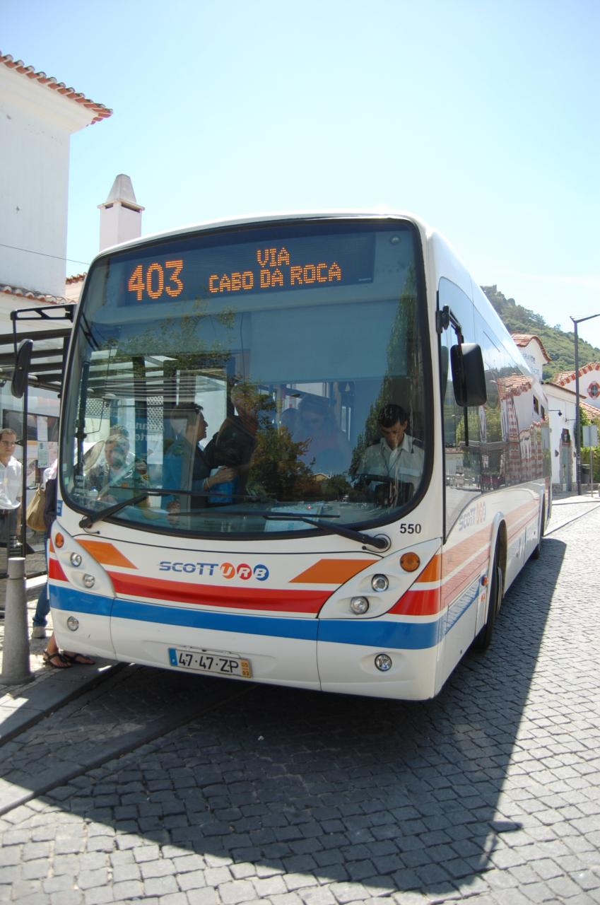 Line 403 Bus via Cabo Da Roca.